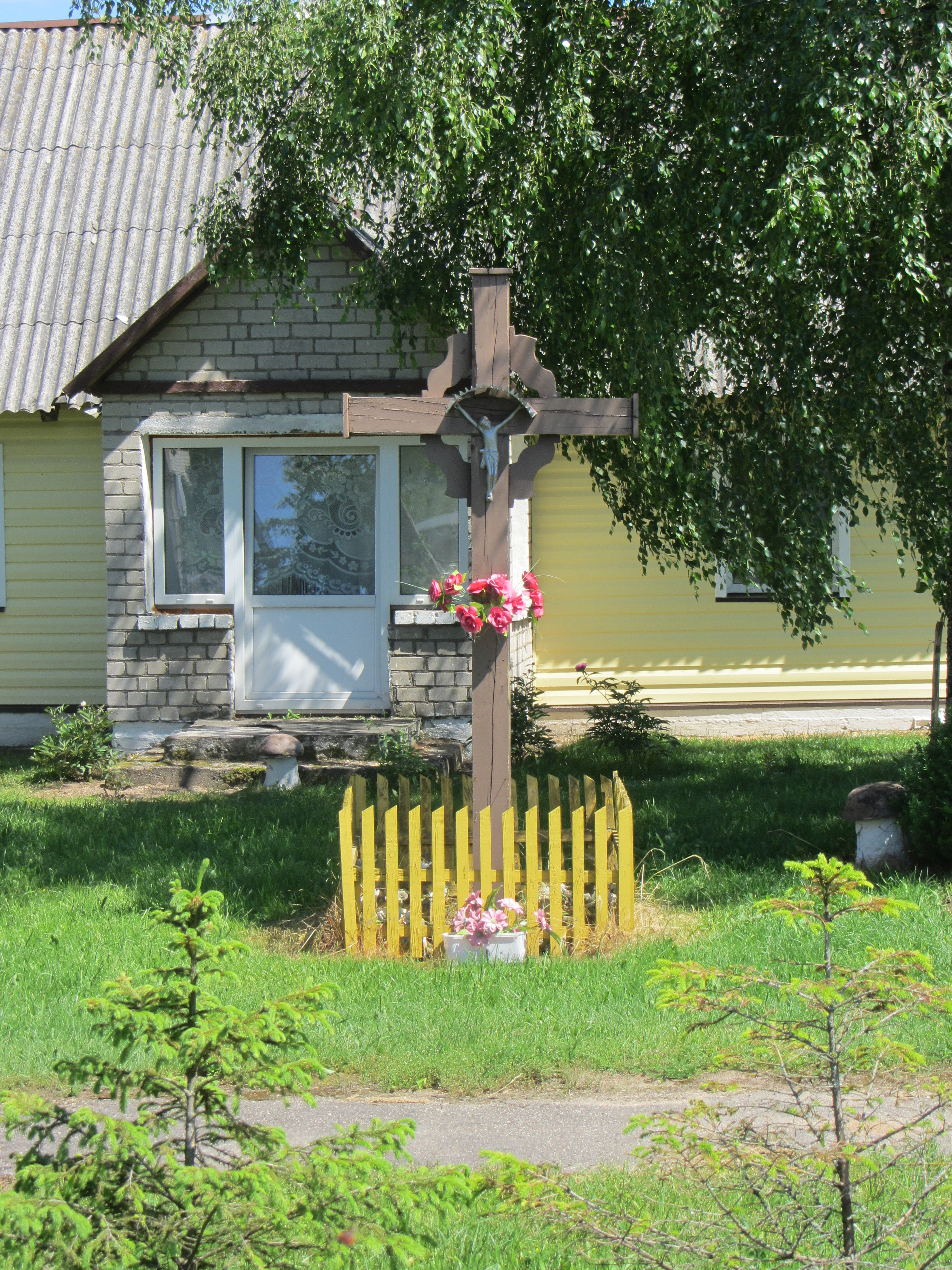 Alionys I, Lithuania